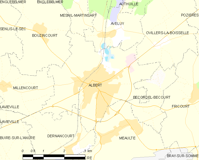 Map of French municipality Albert